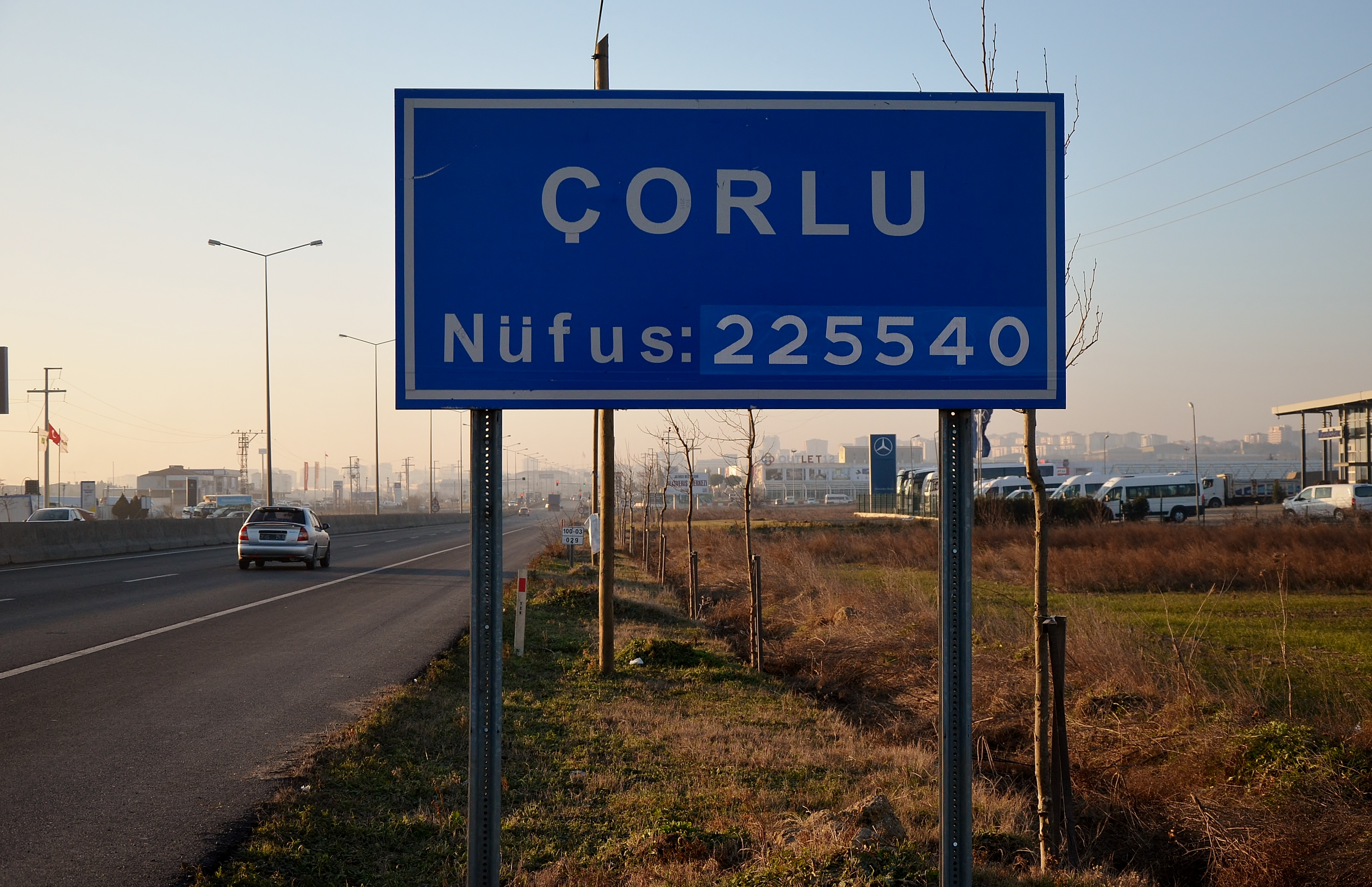 City limit sign of Çorlu in Tekirdağ Province, Turkey